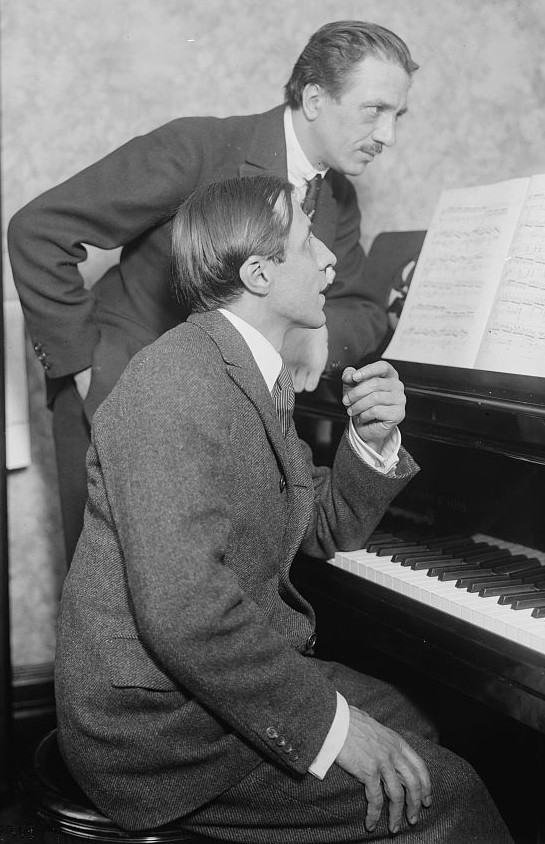 French pianist Alfred Cortot (1877-1962), seated, with French violinist Jacques Thibaud (1880-1953)